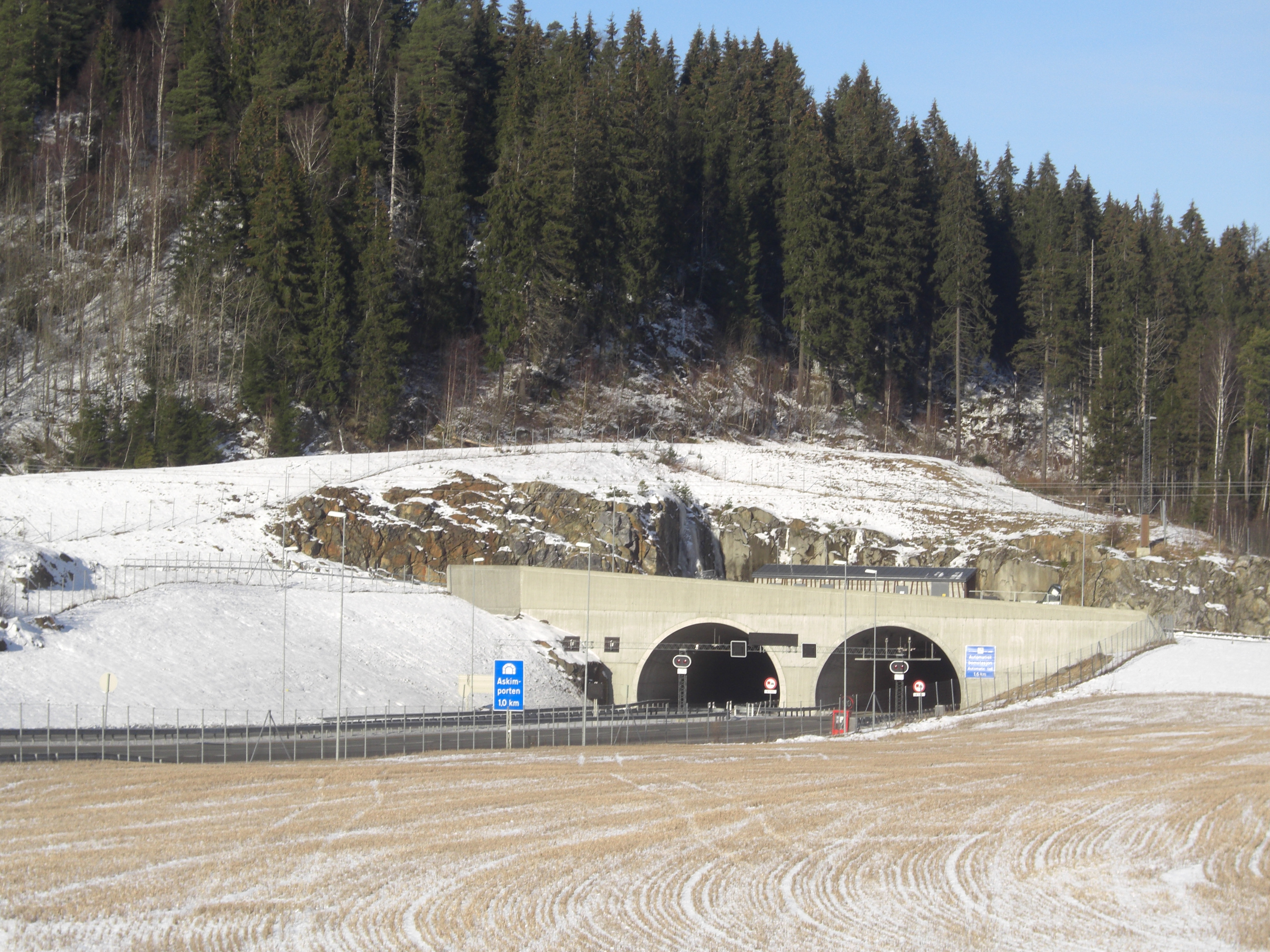 Askimporten tunnel